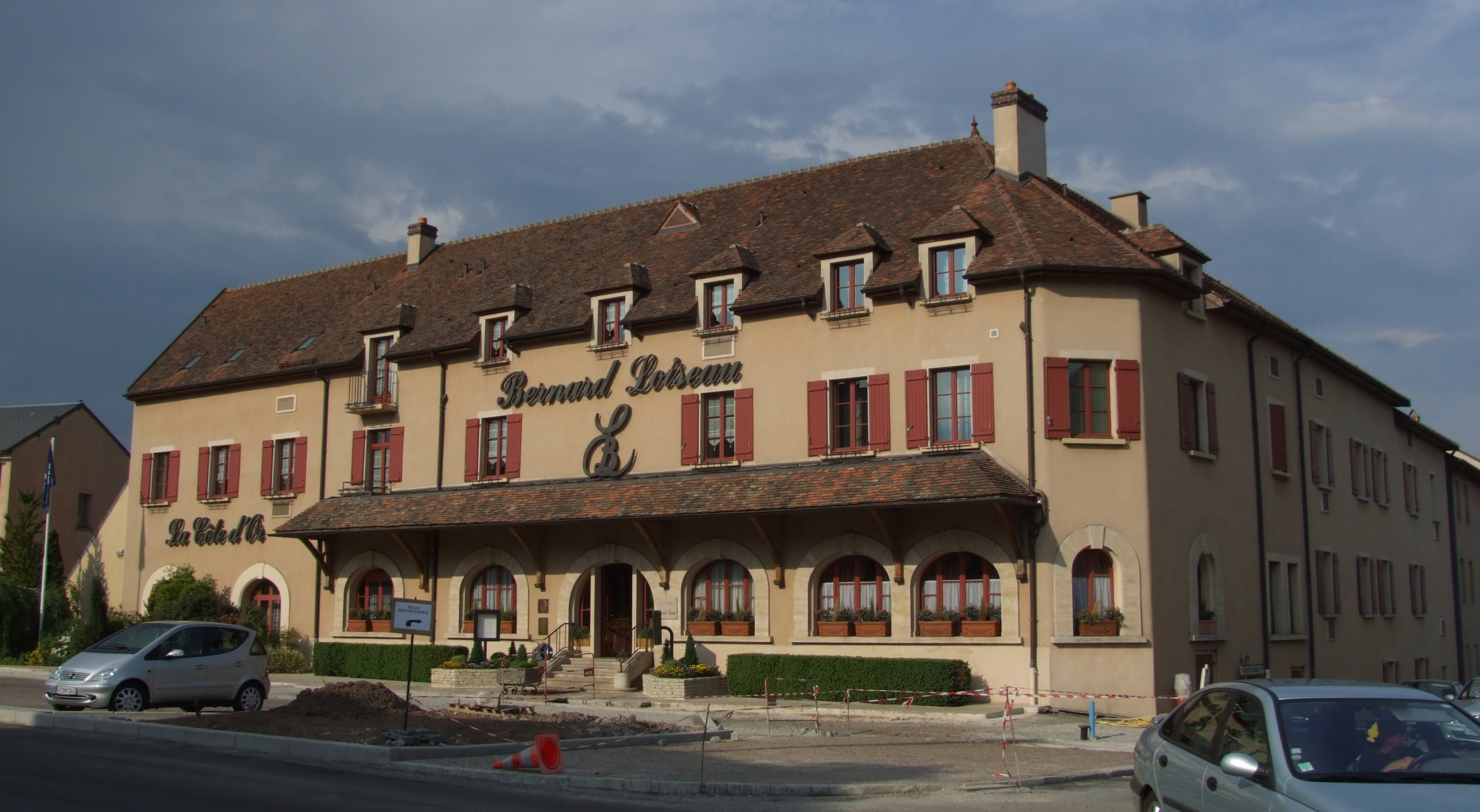 Saulieu, Burgundy, FRANCE